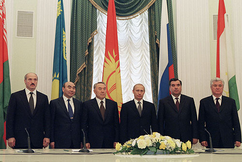 THE KREMLIN, MOSCOW. Participants of a session of the Interstate Council of the Eurasian Economic Community (EurAsEC) - Belarusian President Aleksandr Lukashenko, Kyrgyz President Askar Akaev, Kazakh President Nursultan Nazarbaev, Russian President Vladimir Putin, Tajik President Emomali Rakhmonov and Moldovan President Vladimir Voronin (l-r).